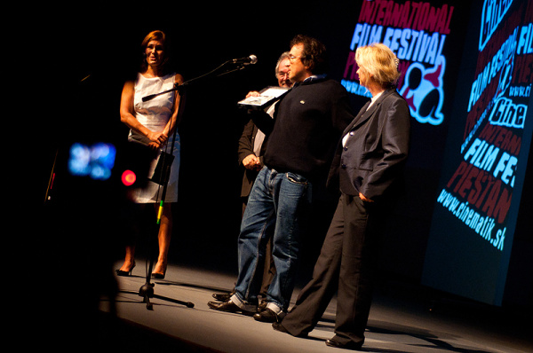 endind ceremonial